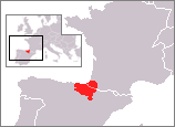 Historical Basque Country's general location Concentration of the given map on its content